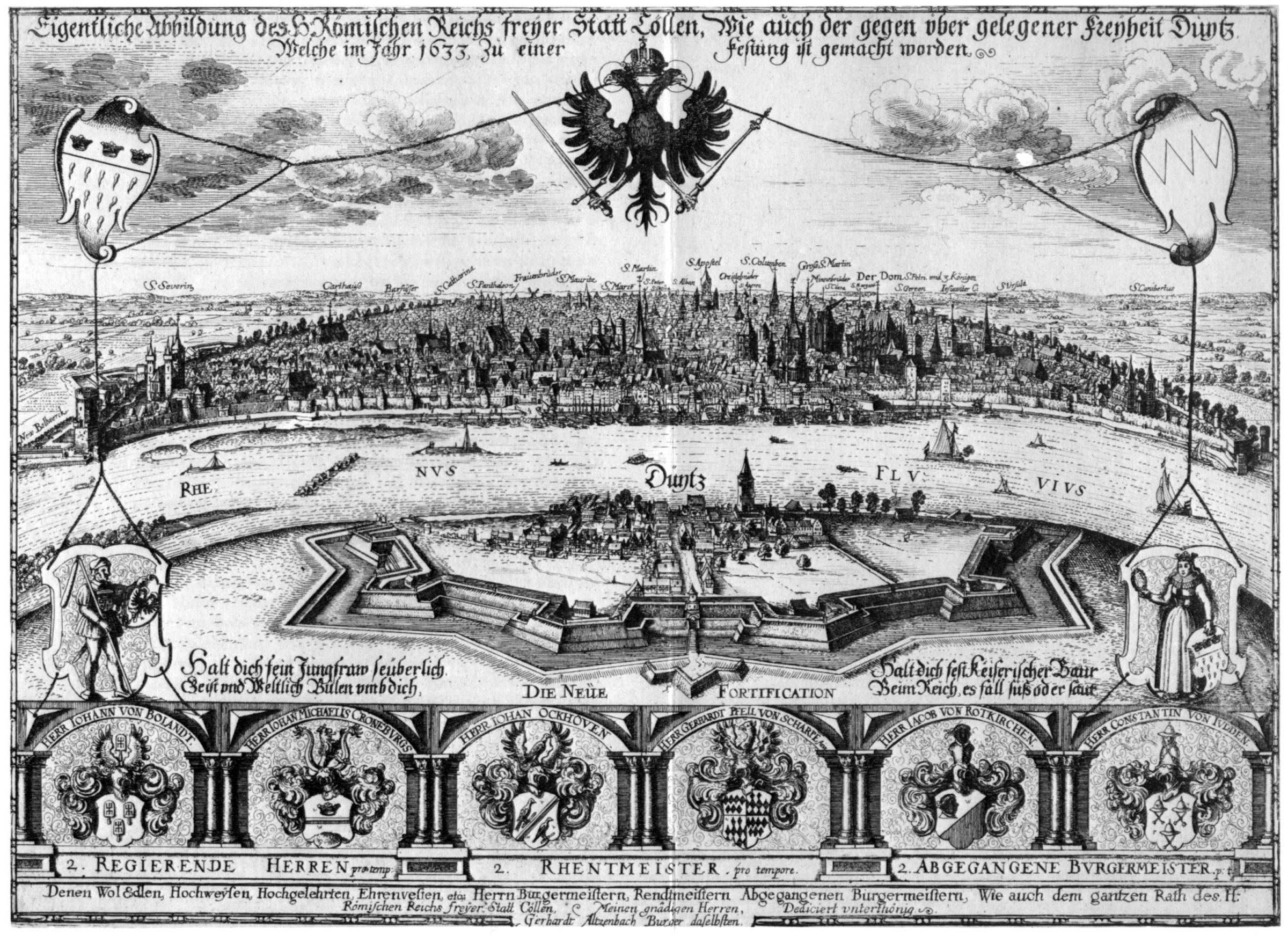 Panorama of Cologne c. 1633. Contemporary engraving by Wenzel Hollar. The conspicuous double-headed eagle underlines Cologne's status as a Free Imperial City.